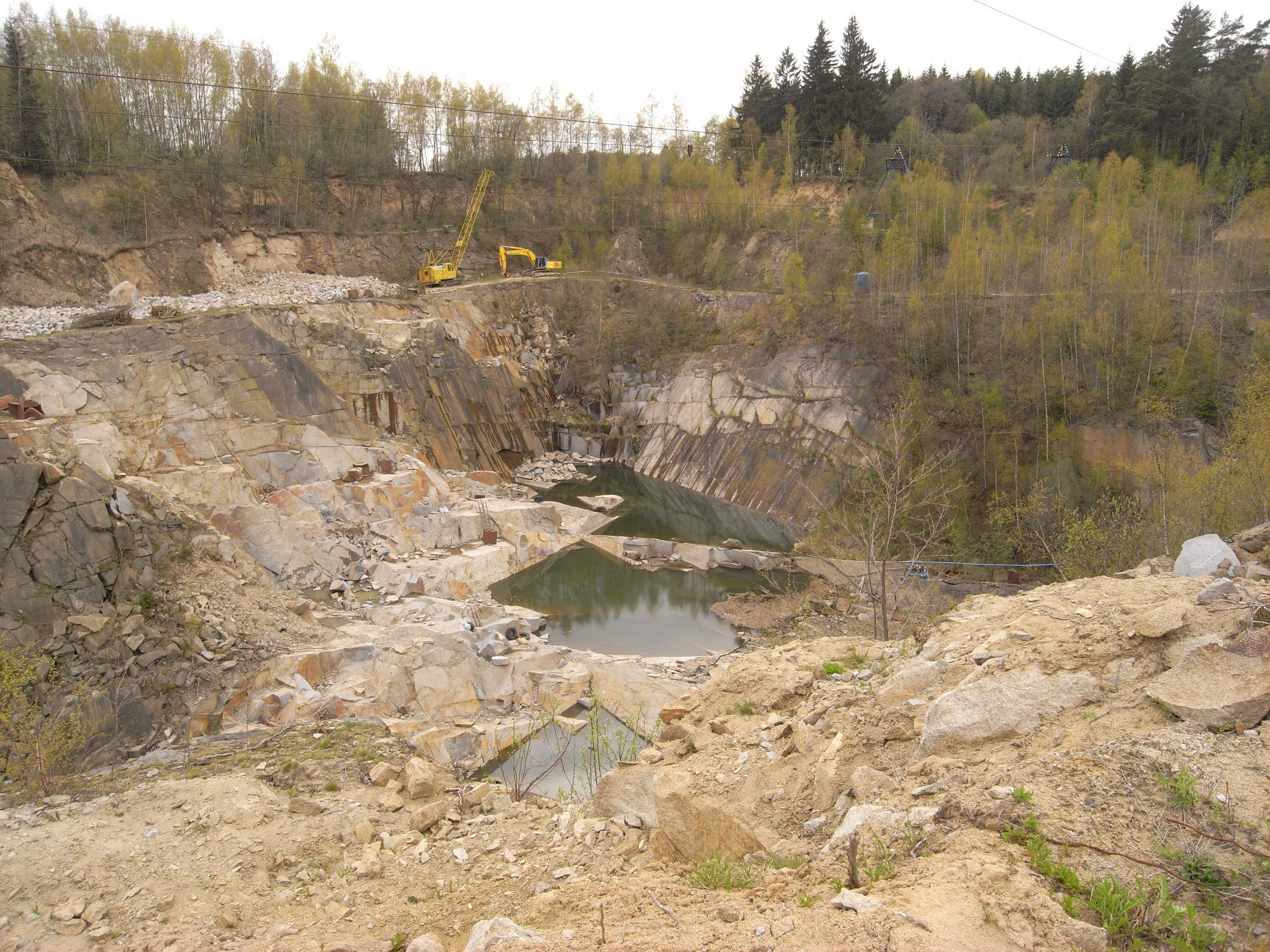 granite quarry (granodiorite) (Czech Republic)